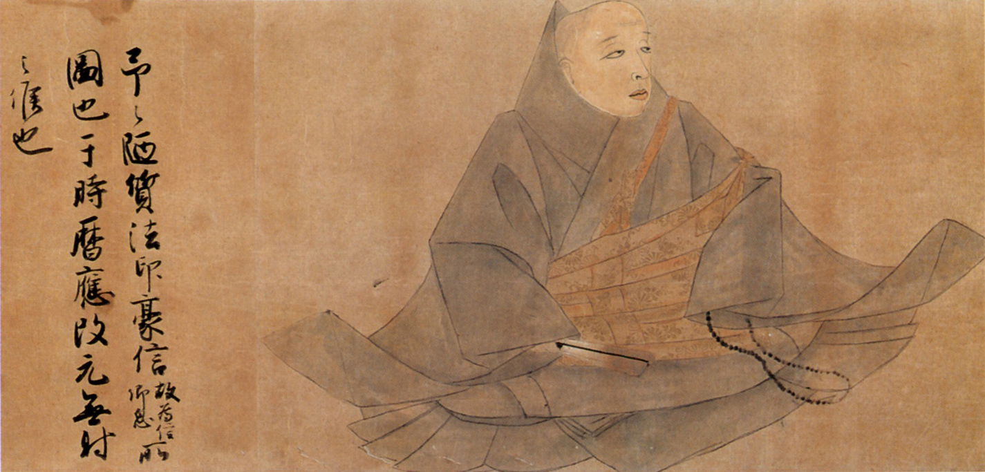 Portrait of Emperor Hanazono,Goshin Fujiwara work, Temple of Chofuku's Collection